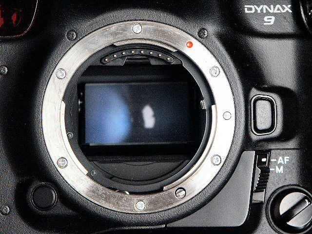 Lens Mount of Minolta Dynax 9